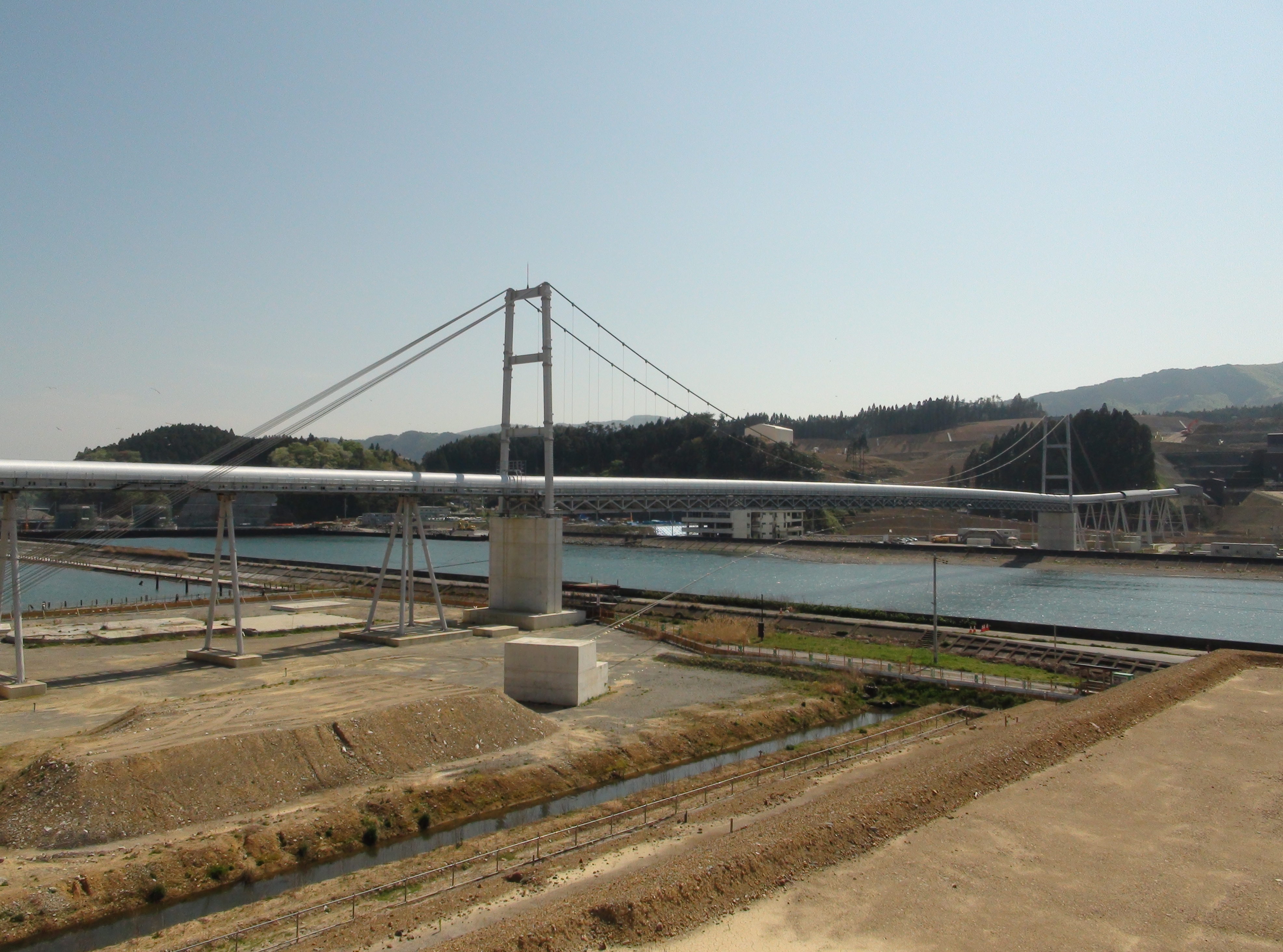 Rikuzentakata, belt conveyors for the earthquake reconstruction